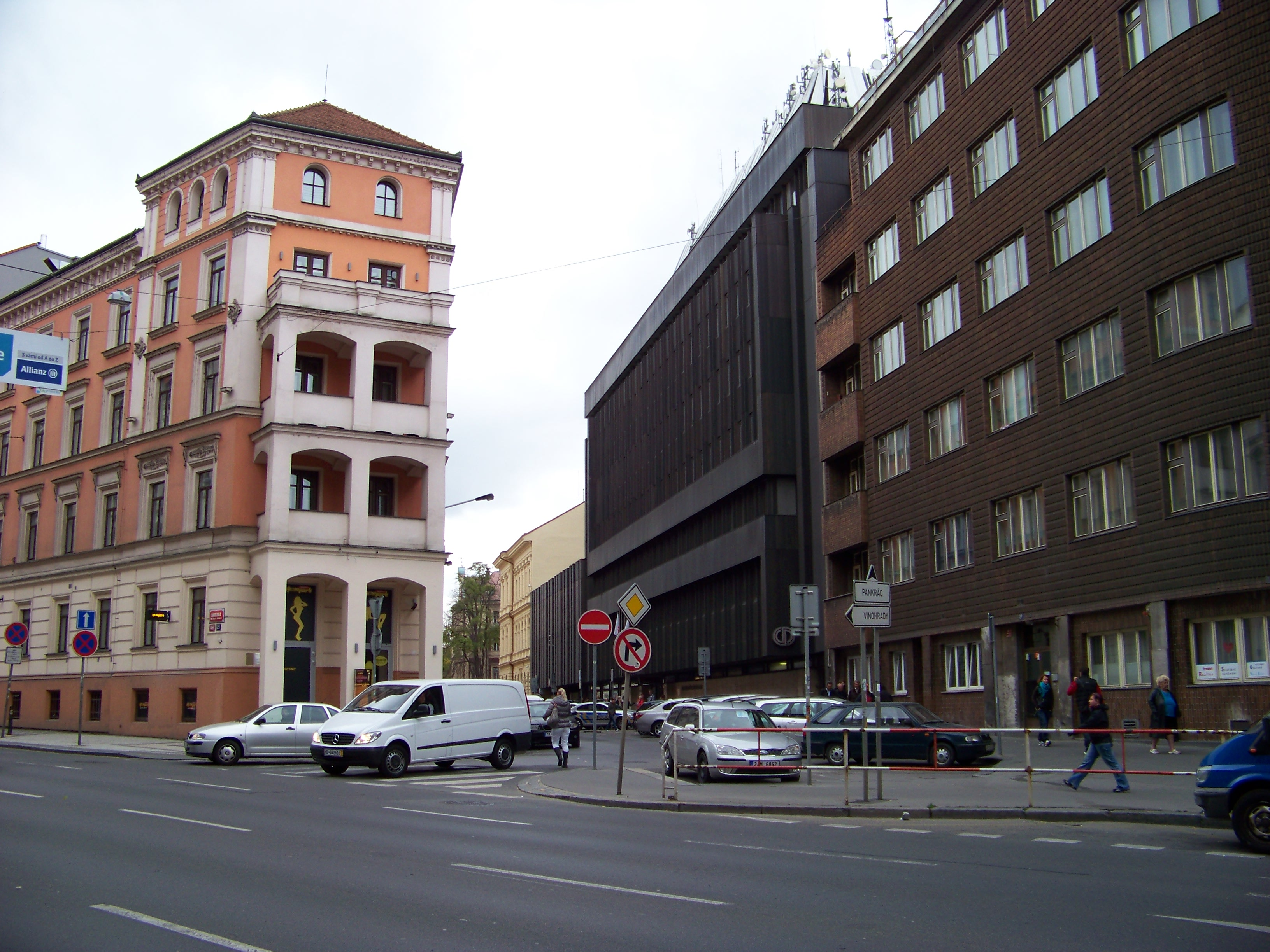 Prague-New Town, the Czech Republic. Na bojišti street.